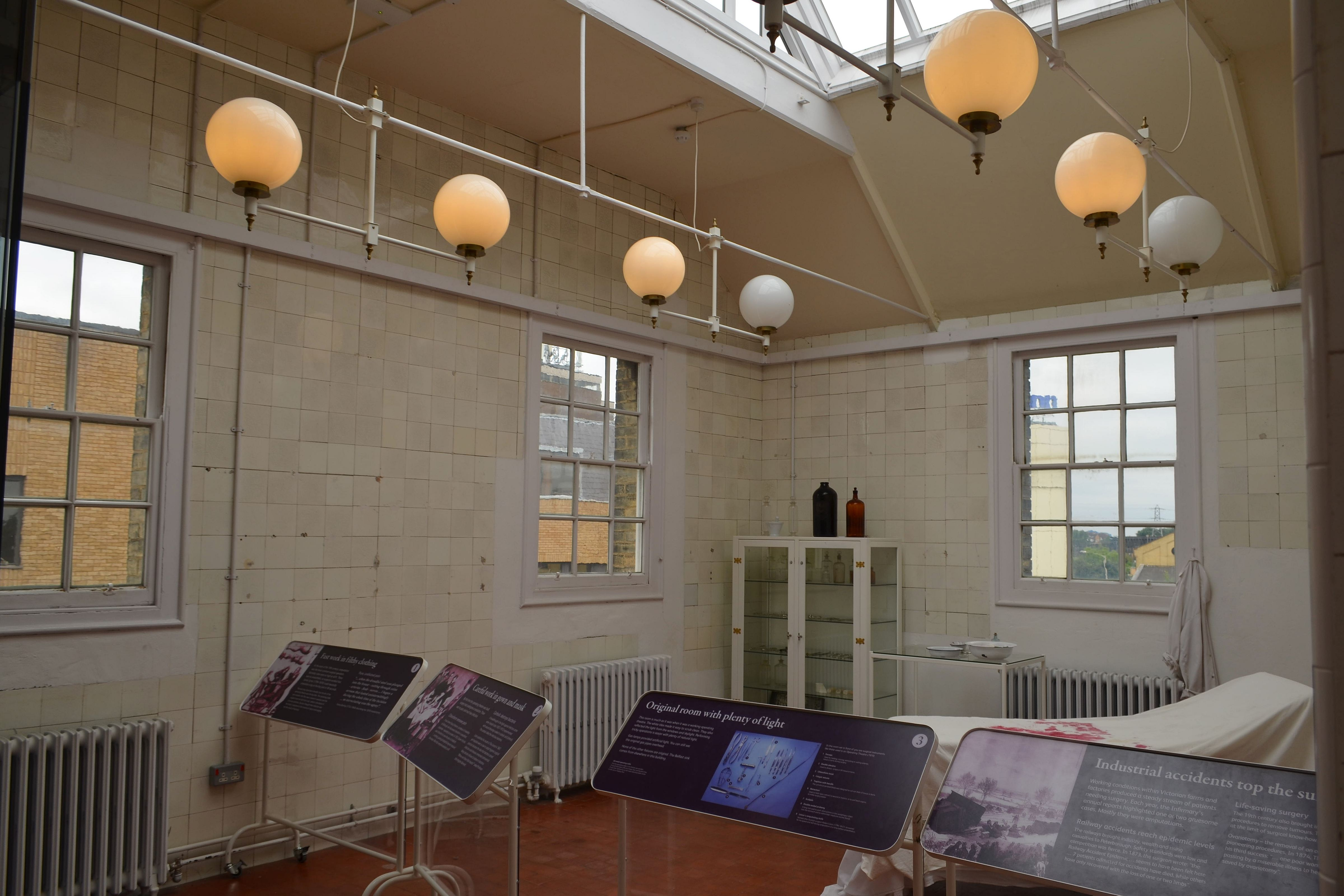 Former operating theatre at Peterborough Museum in July 2017.